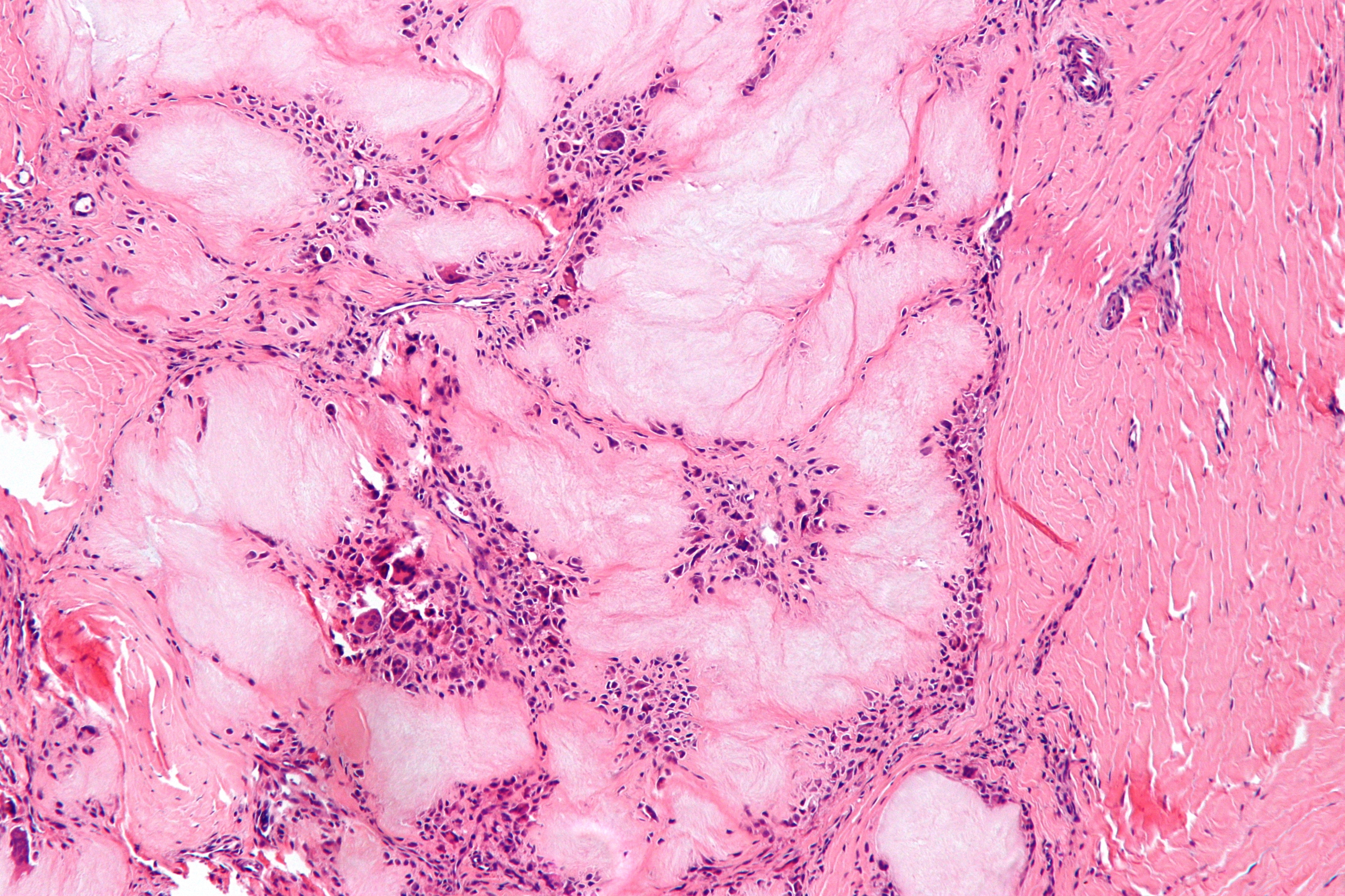 Intermediate magnification micrograph of a gouty tophus. H&E stain. See also Gout. Tophus. Related images Low mag. Intermed. mag. High mag. Very high mag.